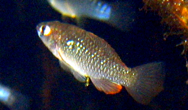 This is a picture of Rainwater killifish, (Lucania parva), taken in a cenote in the Sian Khan reserve, Yucatan, Mexico during a Norwegian College of Fisheries Science, UiT, advanced course in marine ecology during January/February 2007.